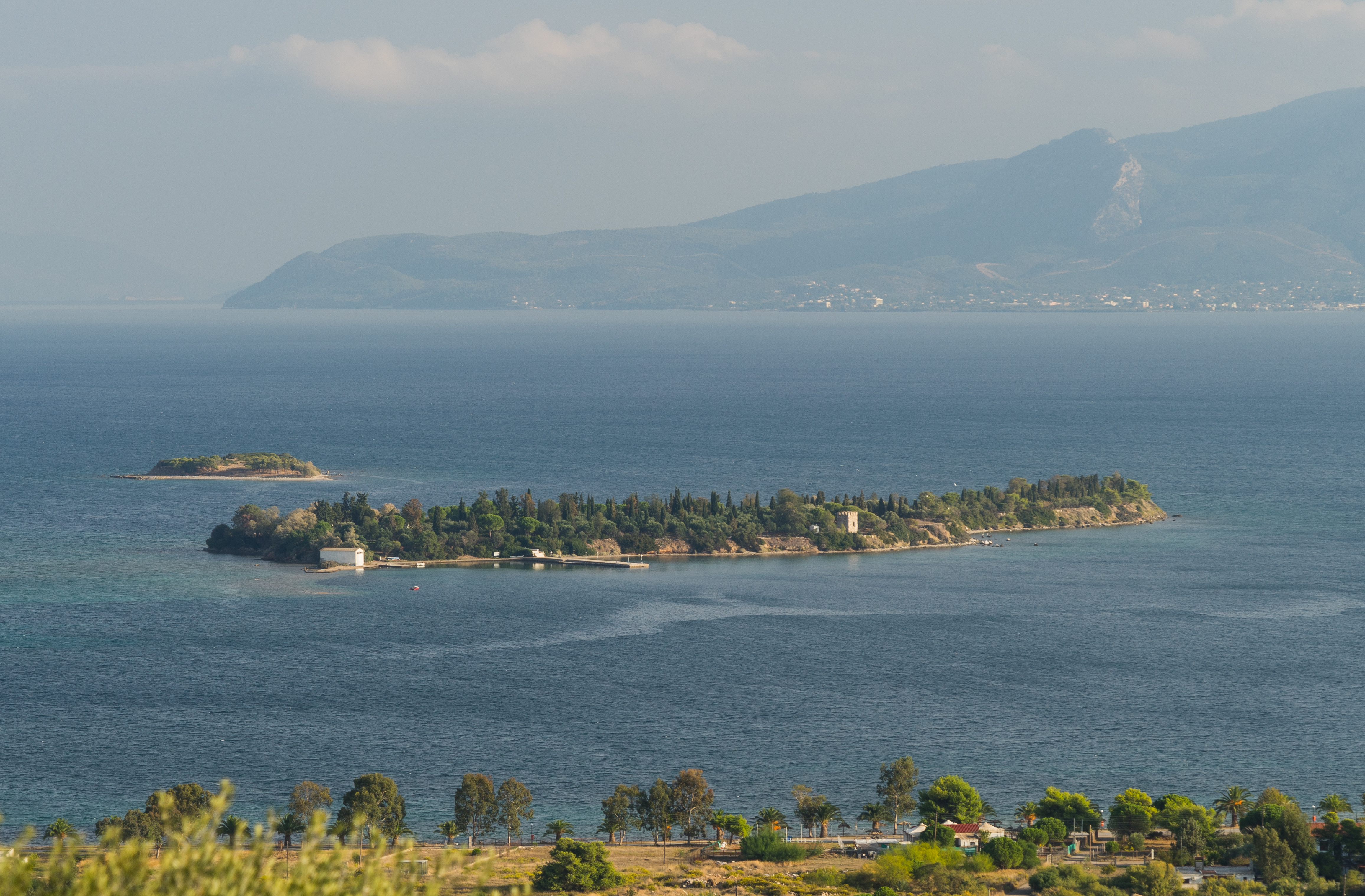 Agia Triada and Aspronisos islets in Eretria, Euboea, Greece.